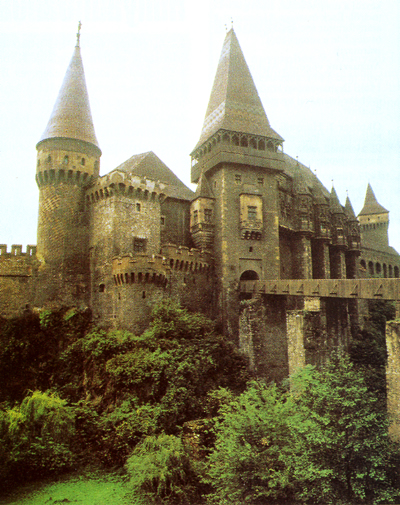 The gate of Huniazilor Castle - Hunedoara, Romania